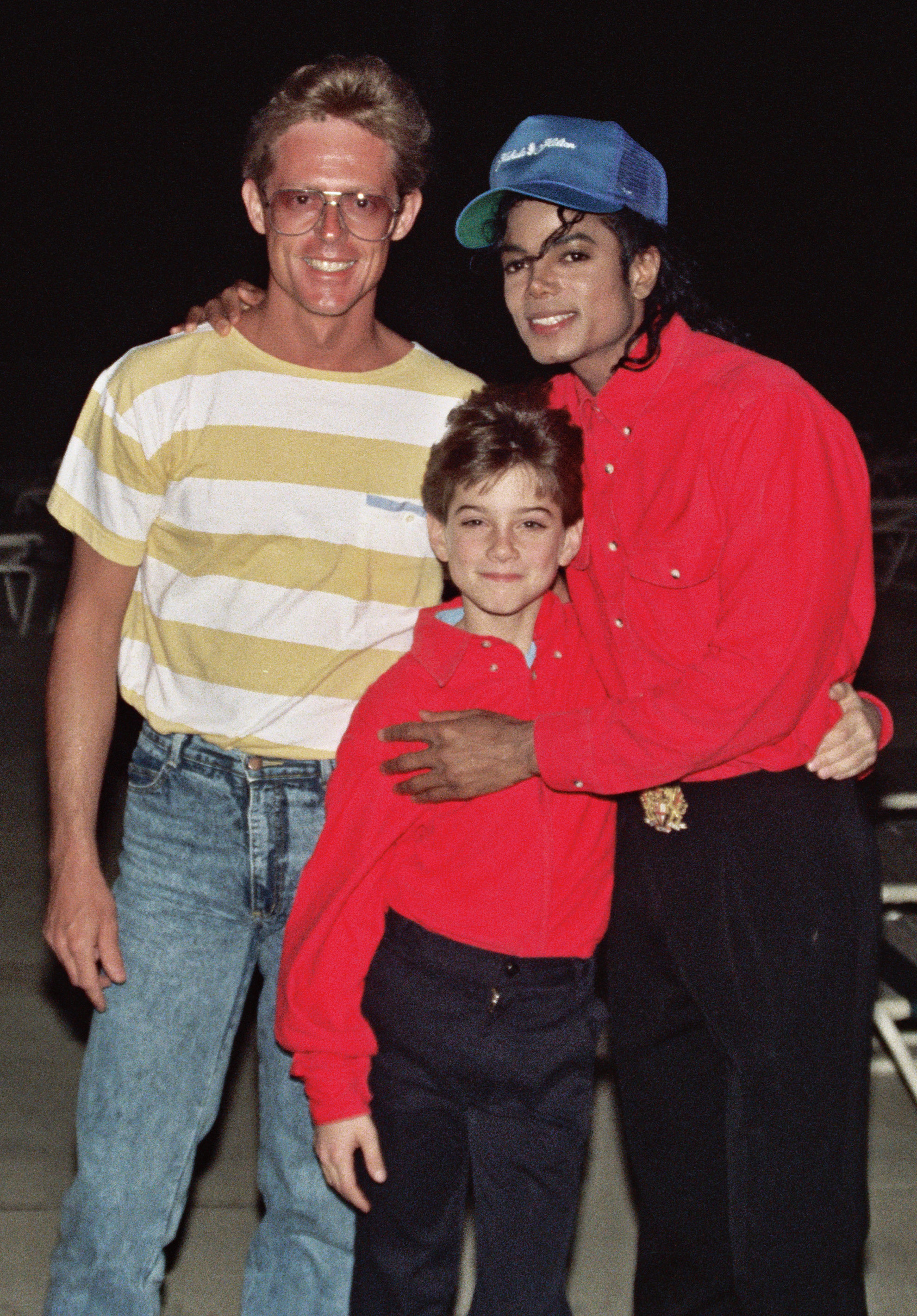 Photo taken at the Kahala Hilton Hotel, early February 1988 - Me with Michael Jackson and Jimmy Safechuck, a boy who was appearing in a Pepsi TV commercial with Michael at the time. High resolution negative san - 256 pixels/inch. NOTE: Permission granted to copy, publish, broadcast or post any of my photos, but please credit "photo by Alan Light" if you can. Thanks.